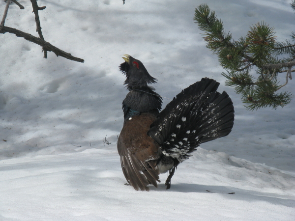 Capercaille on the snow with a radio transmiter